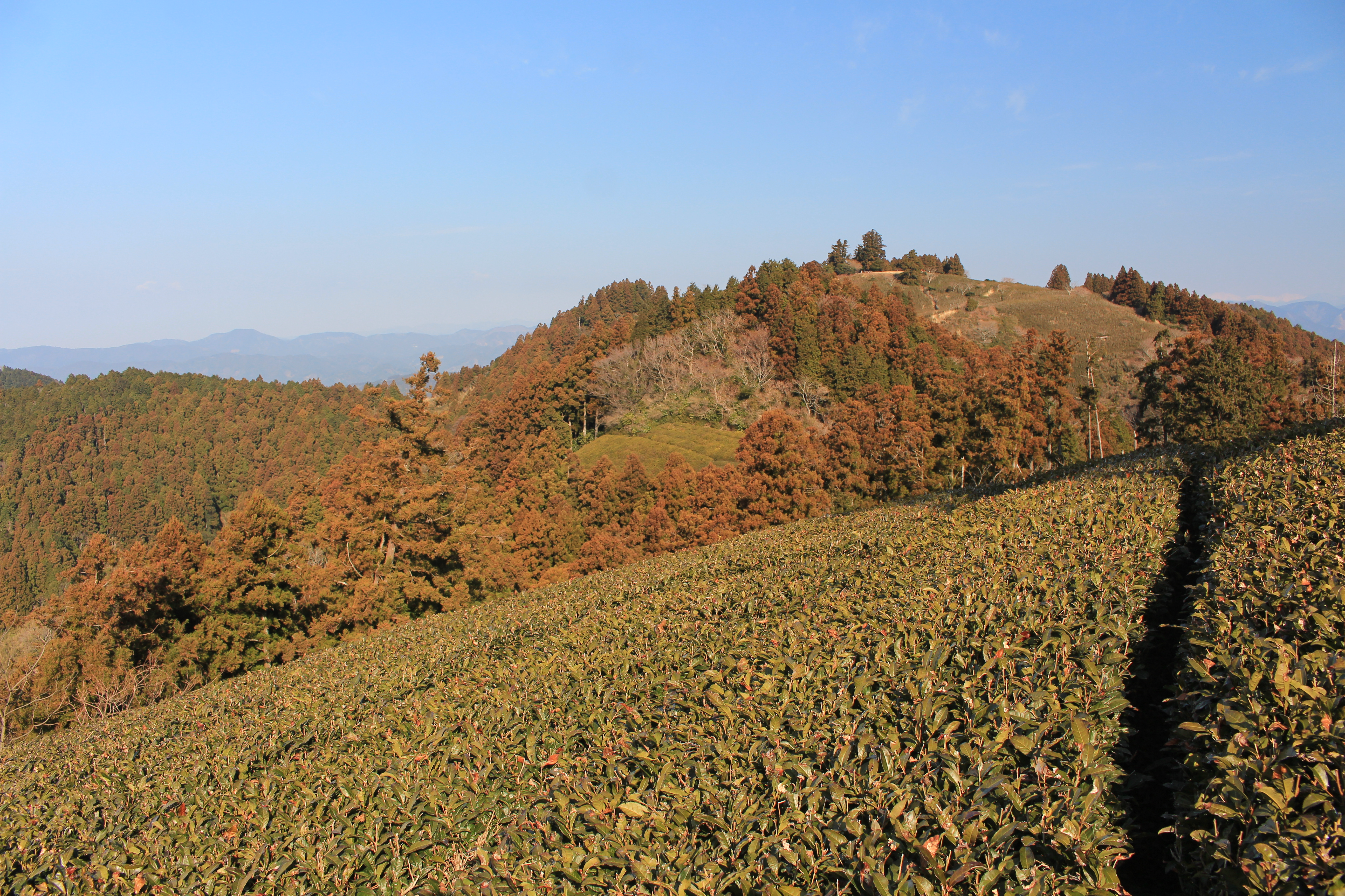 Mount Mankan (Mankan-hō) seen from south in Suruga-ku, Shizuoka and Yaizu, Shizuoka prefecture, Japan.